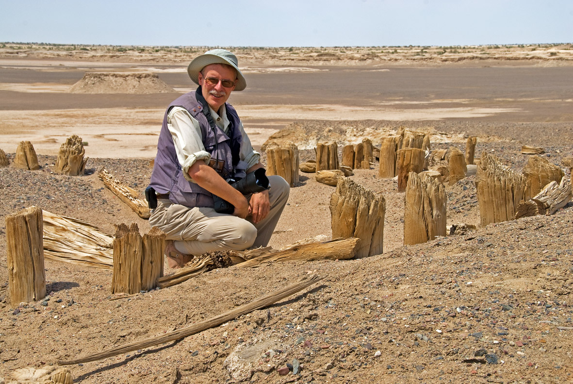 Christoph Baumer at Bronze Age graveyard Käwrigul (Gumugo)